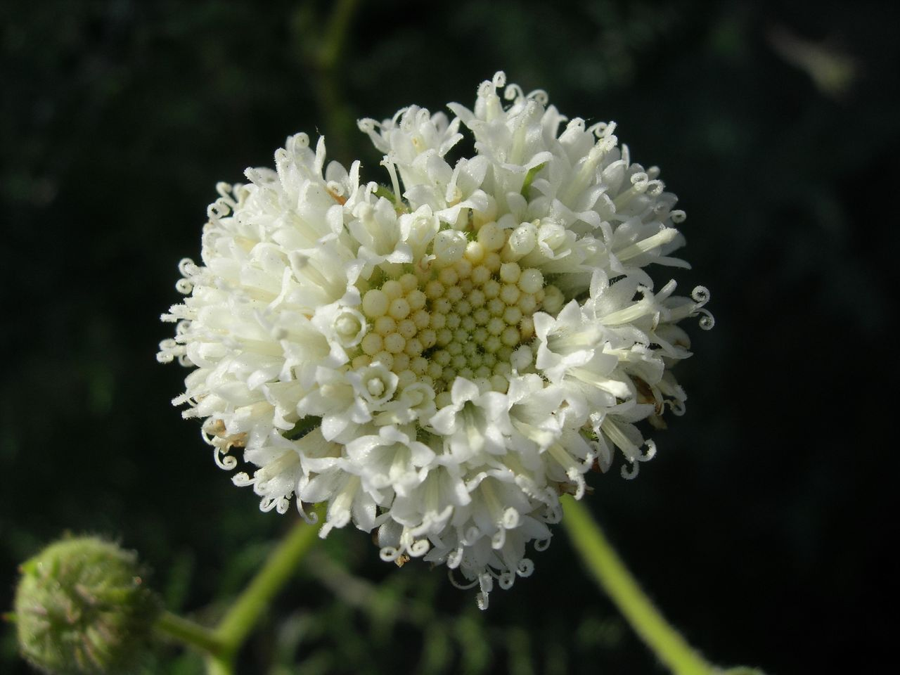 Chaenactis artemisiifolia — in Los Angeles, California.